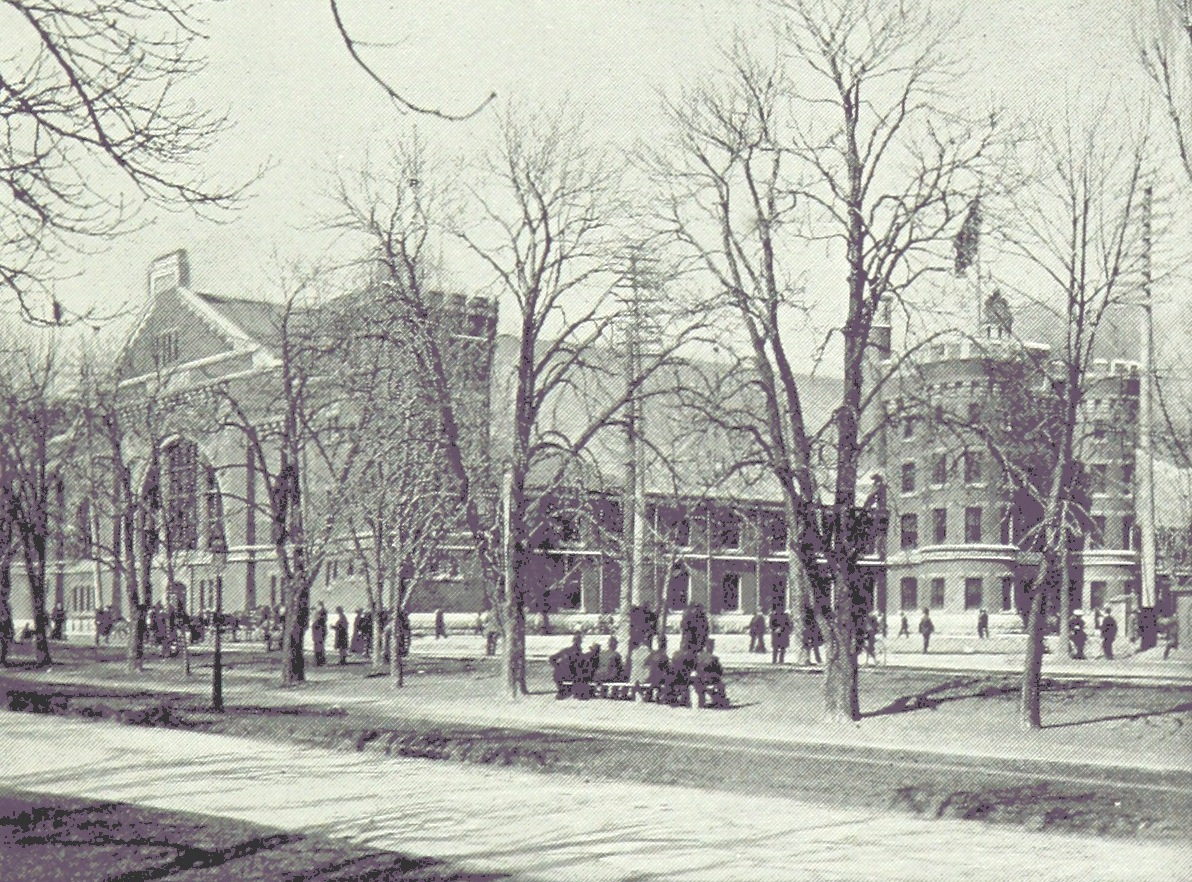 The Toronto Armories on University Avenue. Toronto, Ontario, Canada.